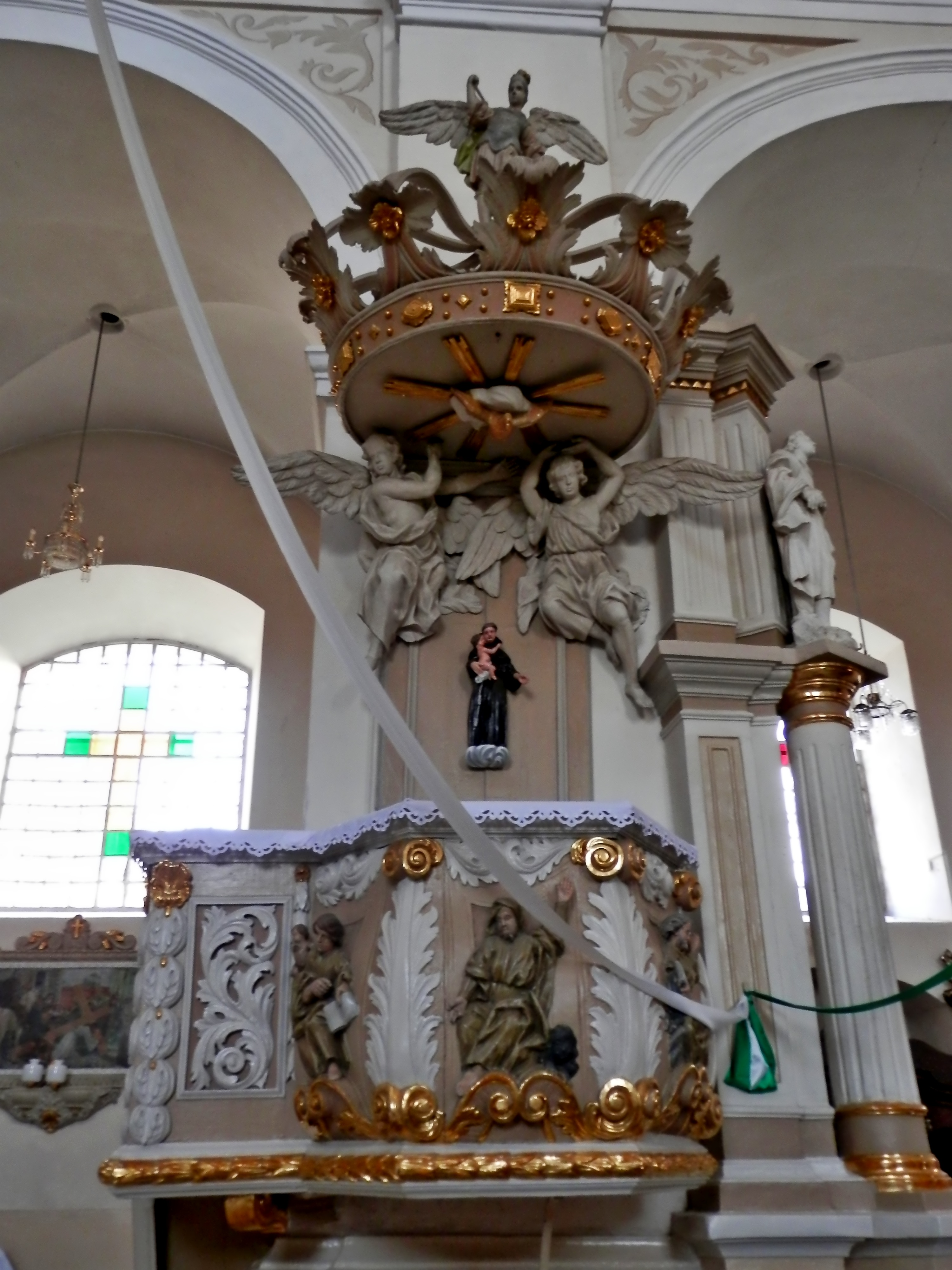 Franciscan church of St. Mary of the Angels in Hrodna